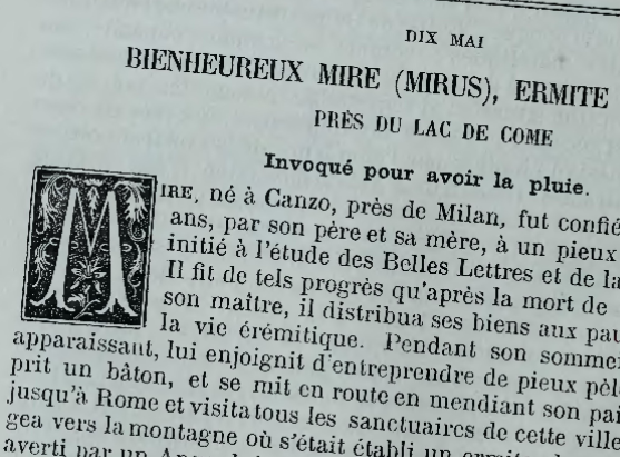 Fragment of page from Les saints patrons des corporations et protecteurs... by Louis Du Broc de Segange (France, 1887), about blessed Mire/Mirus/Miro from Canzo (Italy), 13th century hermit